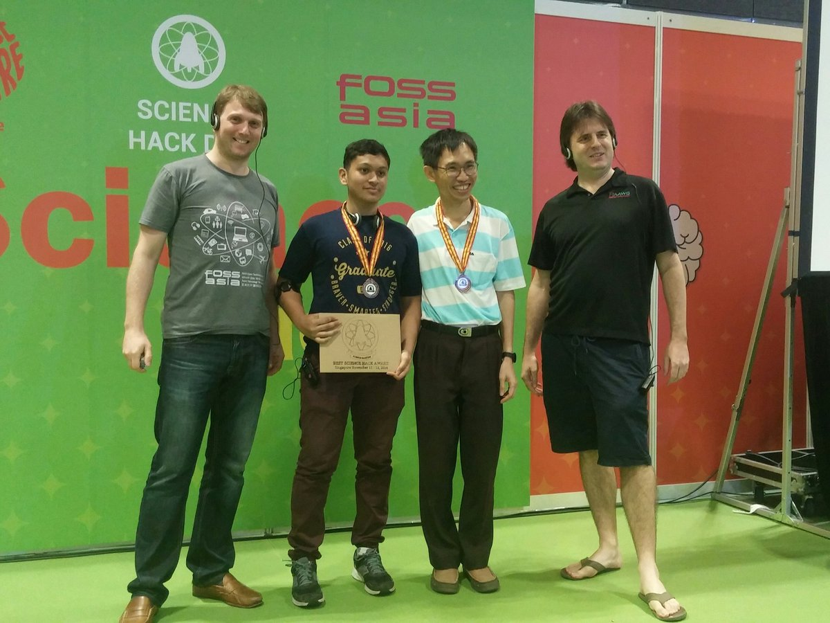 ScienceHackDaySingapore